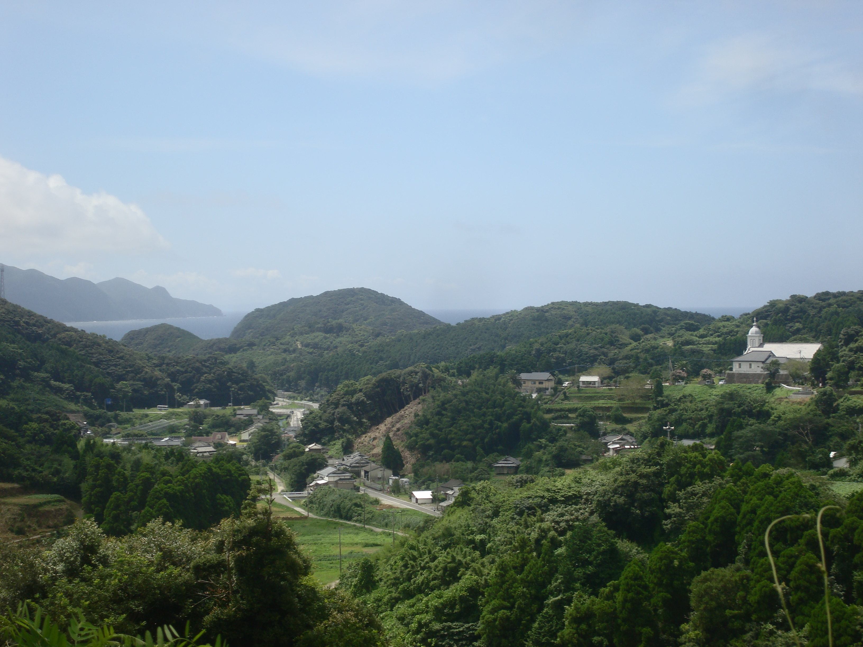 Village of Oe in Amakusa town, Amakusa City, Kumamoto Prefecture, Japan.